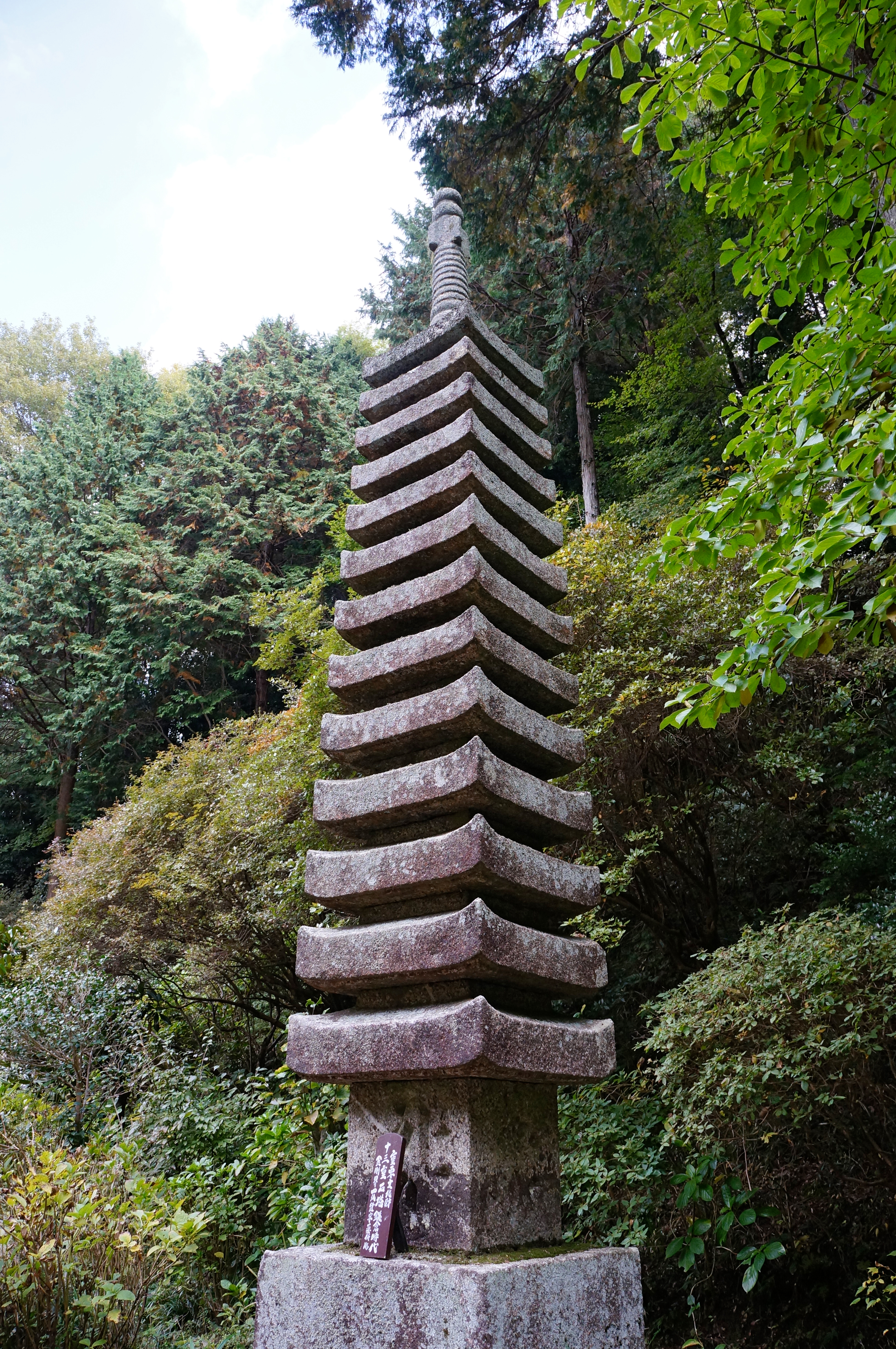 Gansen-ji in Kizugawa, Kyoto prefecture, Japan